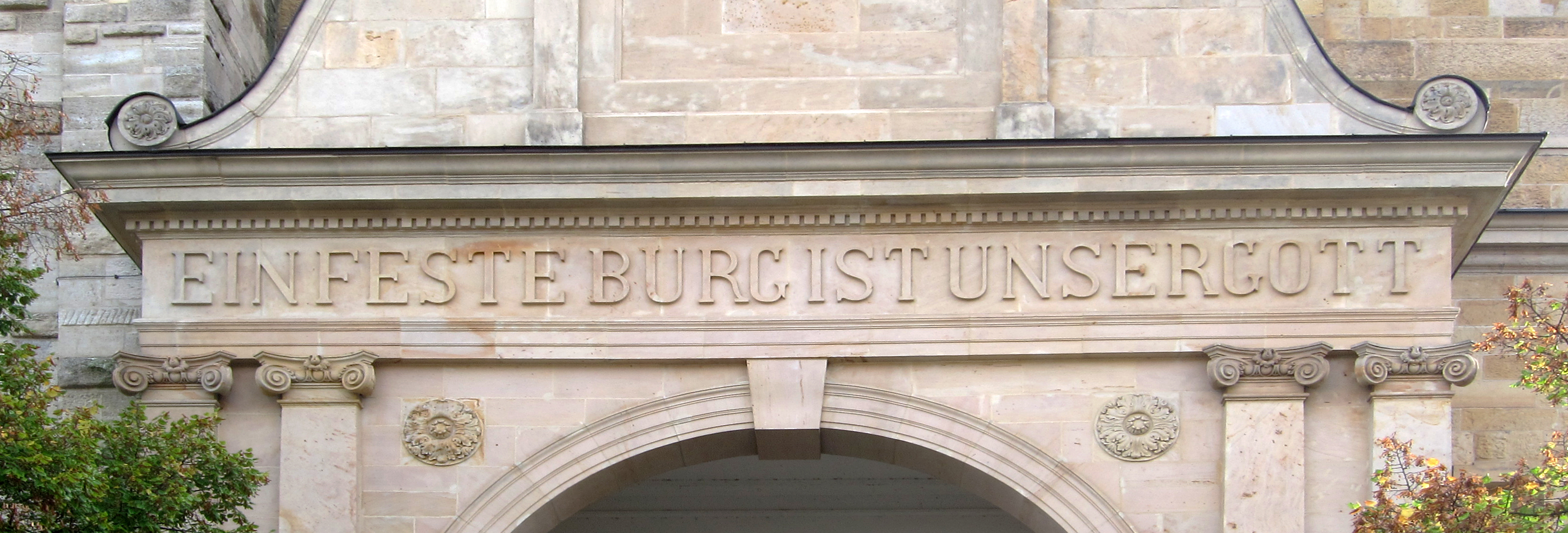 Georgenkirche in Eisenach, Germany